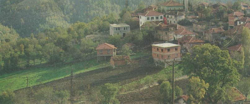 Ericek Village